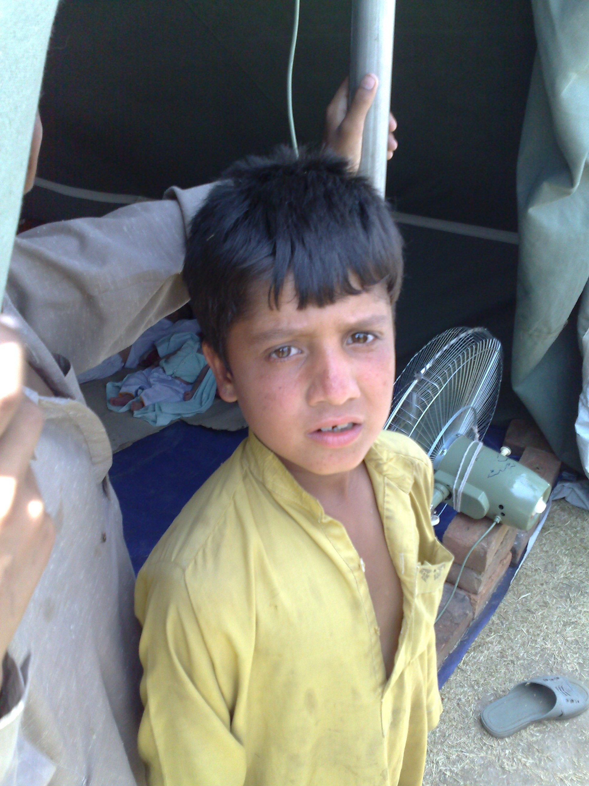 Families at the camp fled from fighting in Swat Valley and nearby Buner disctrict.